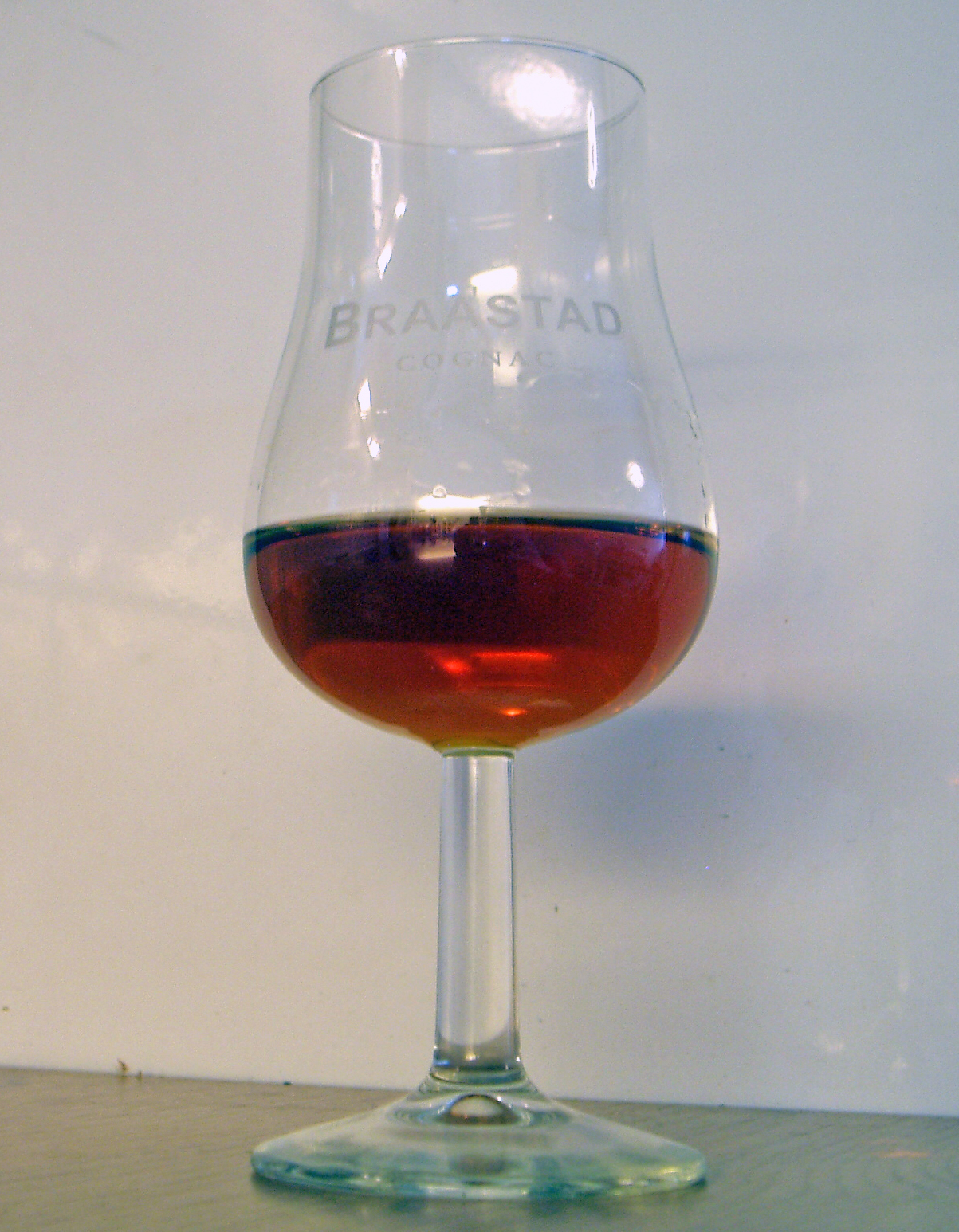 Tulip shaped cognac glass